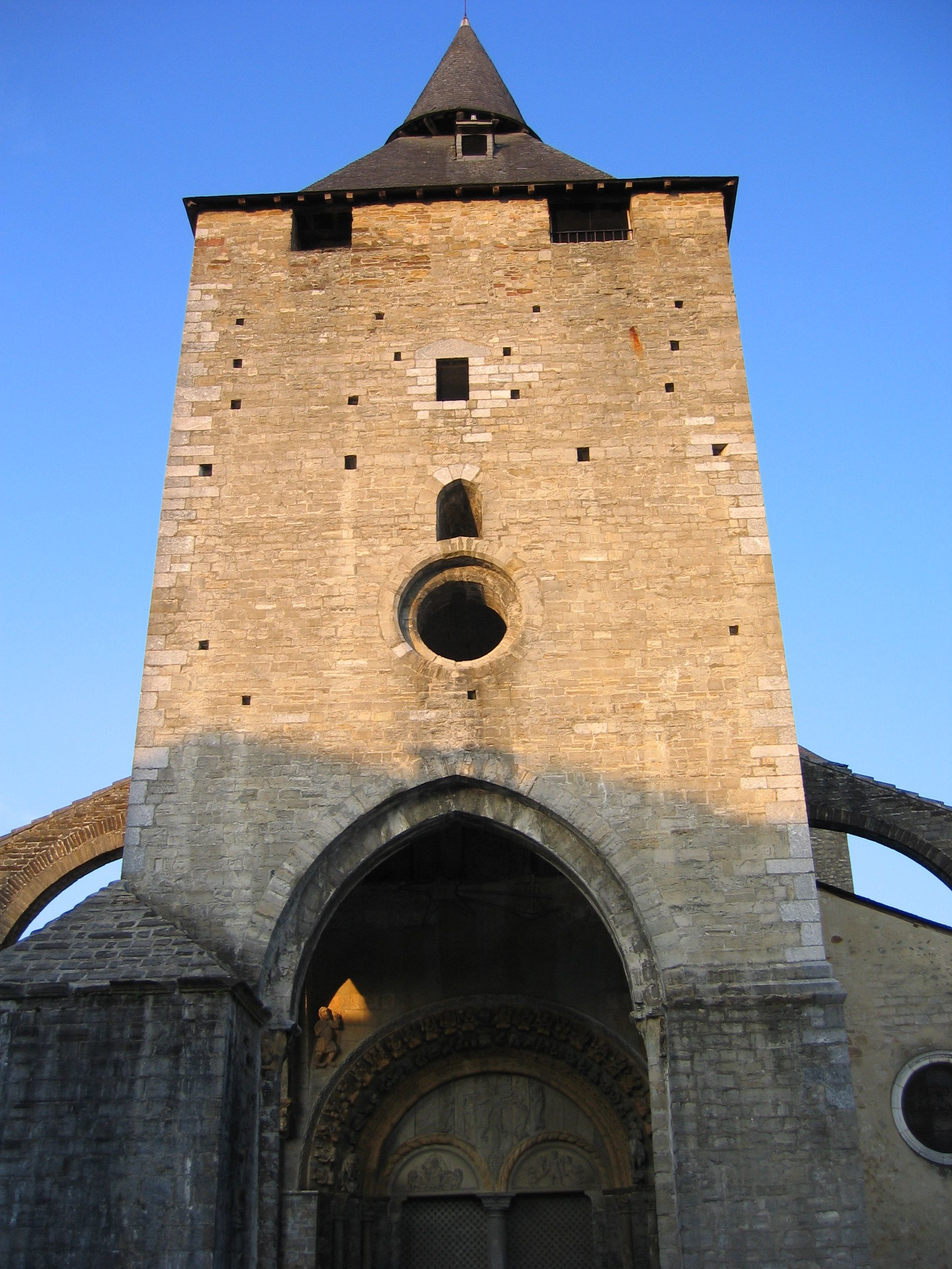 The tower of the church of Sainte-Marie in Oloron-Sainte-Marie